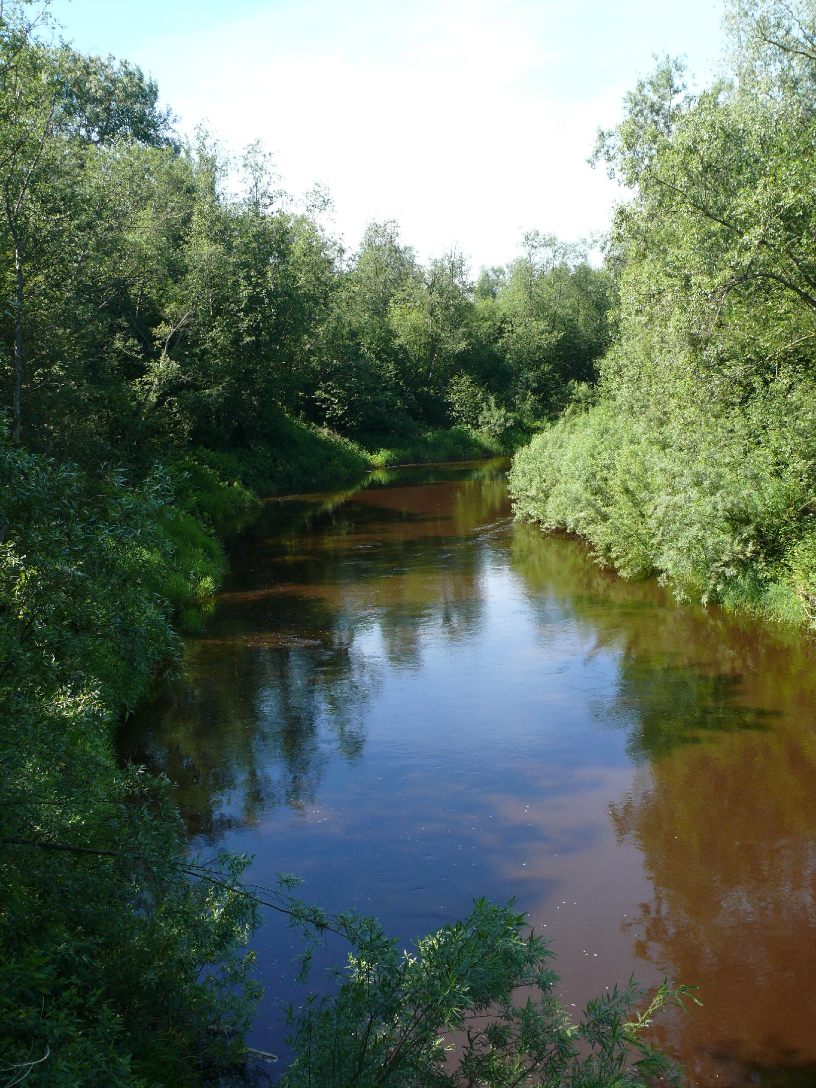 Porussya river in Losytino village, Novgorod oblast, Russia